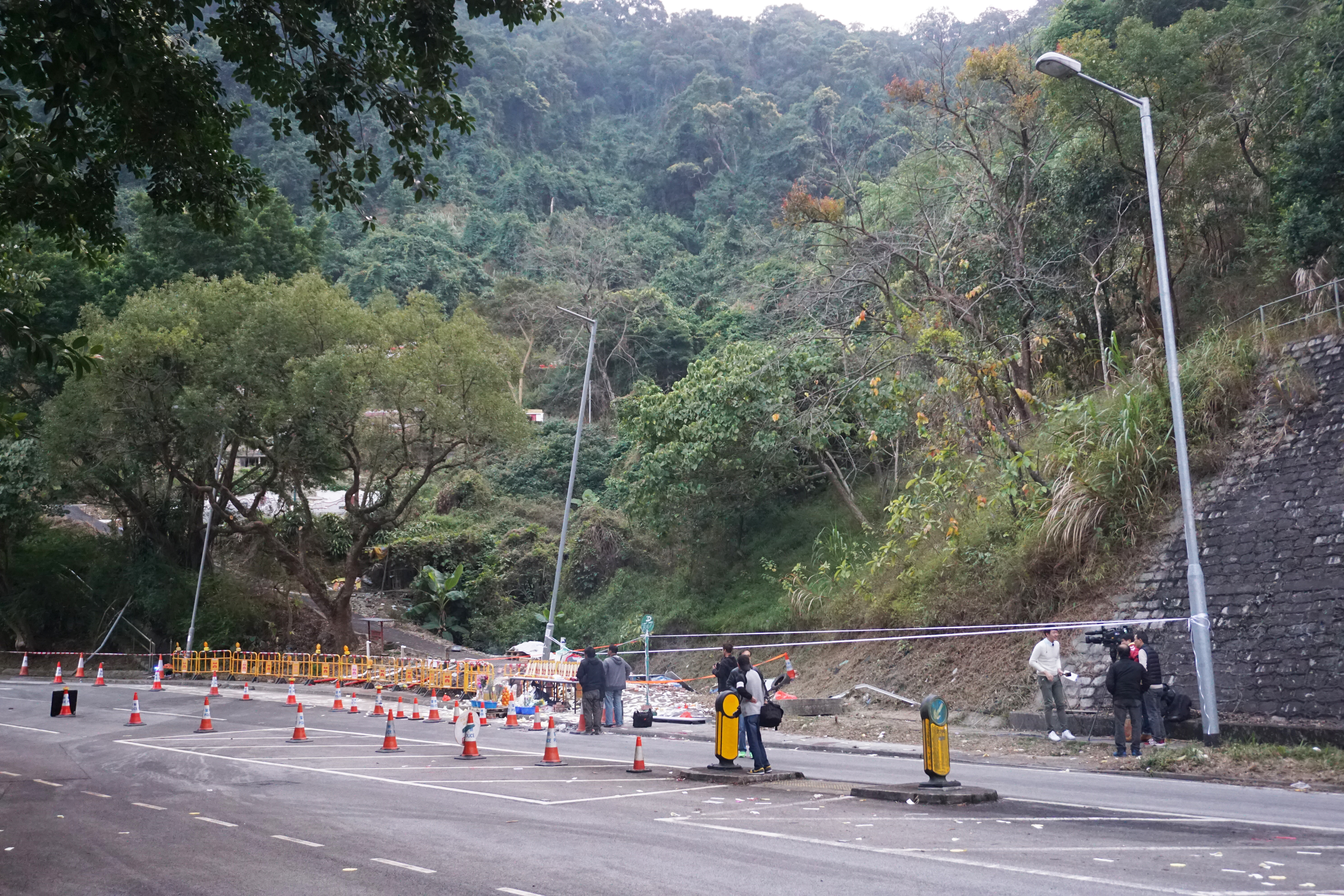 Double-decker Bus Tilted Incident in Tai Po Road, Hong Kong.